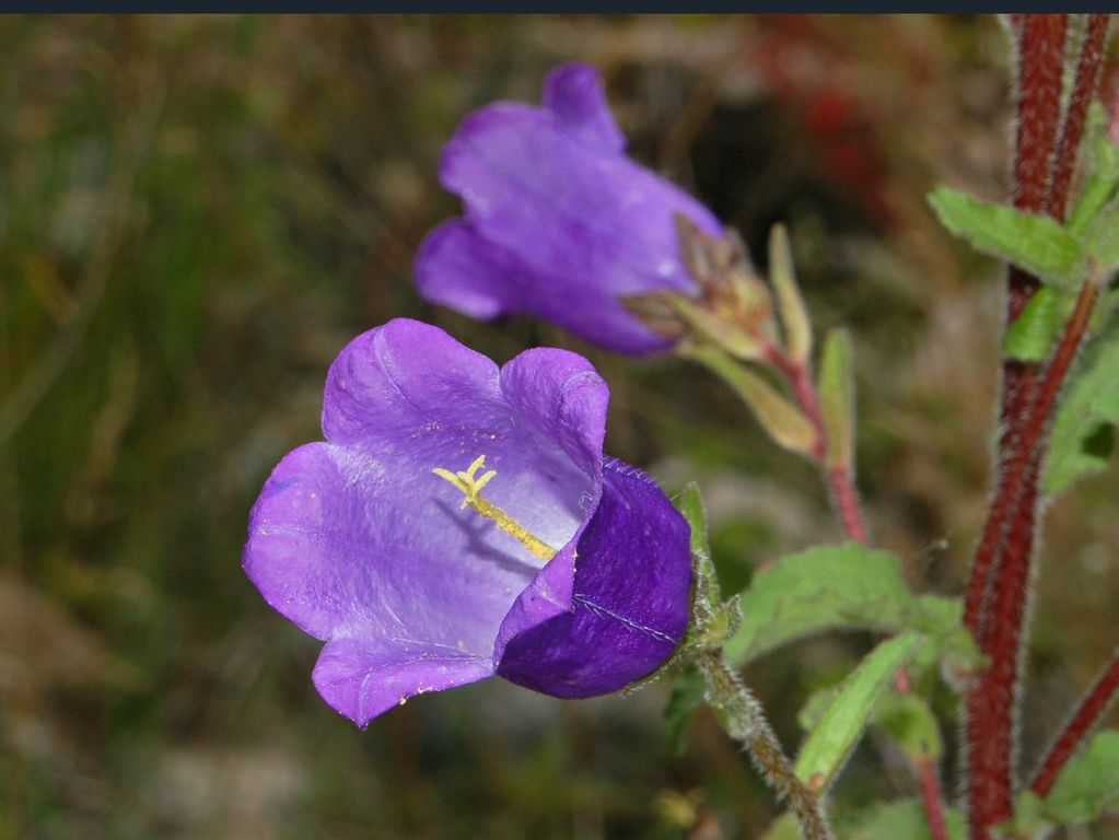 Campanula medium - Val Noci, Genova, Italy